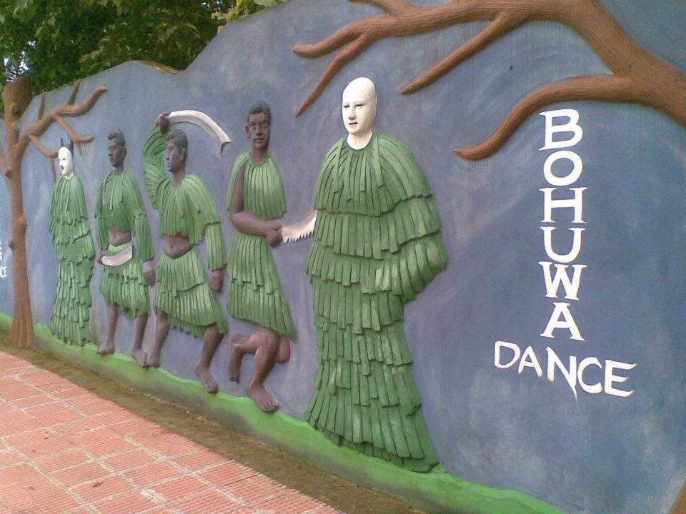 Bohuwa Dance